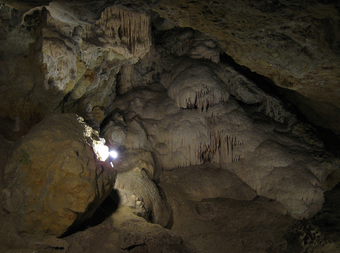 Grottos near the village of Savonnières in France